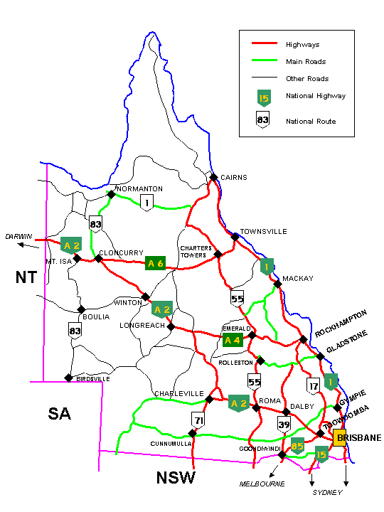 Added alphanumeric markings